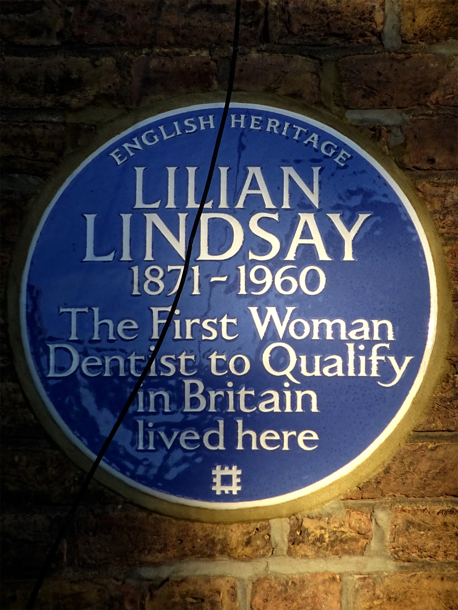 Blue plaque erected in 2013 by English Heritage at 3 Hungerford Road, Holloway, London N7 9LA, London Borough of Islington